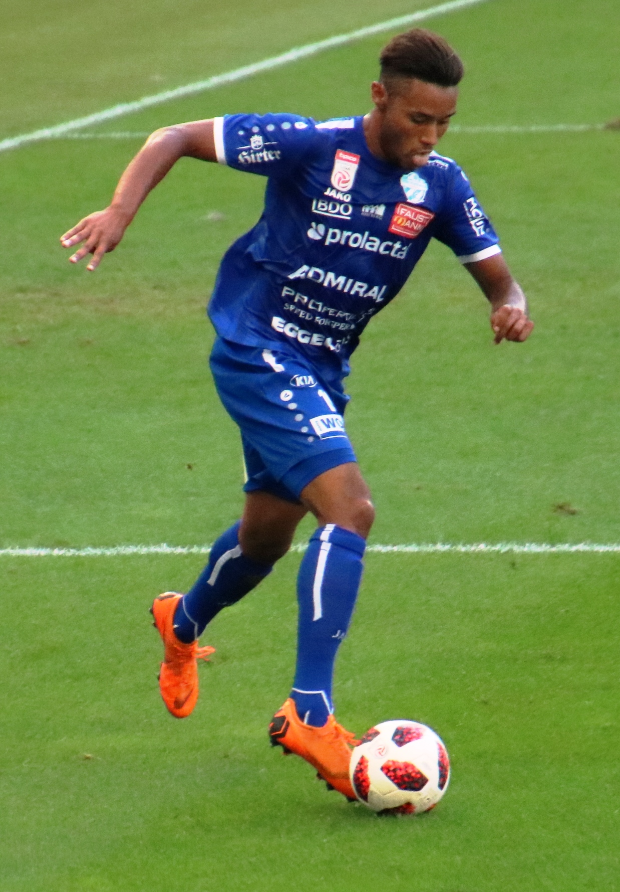 Austrian Bundesliga league match 4th round